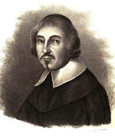 Croatian scholar Stjepan Gradić